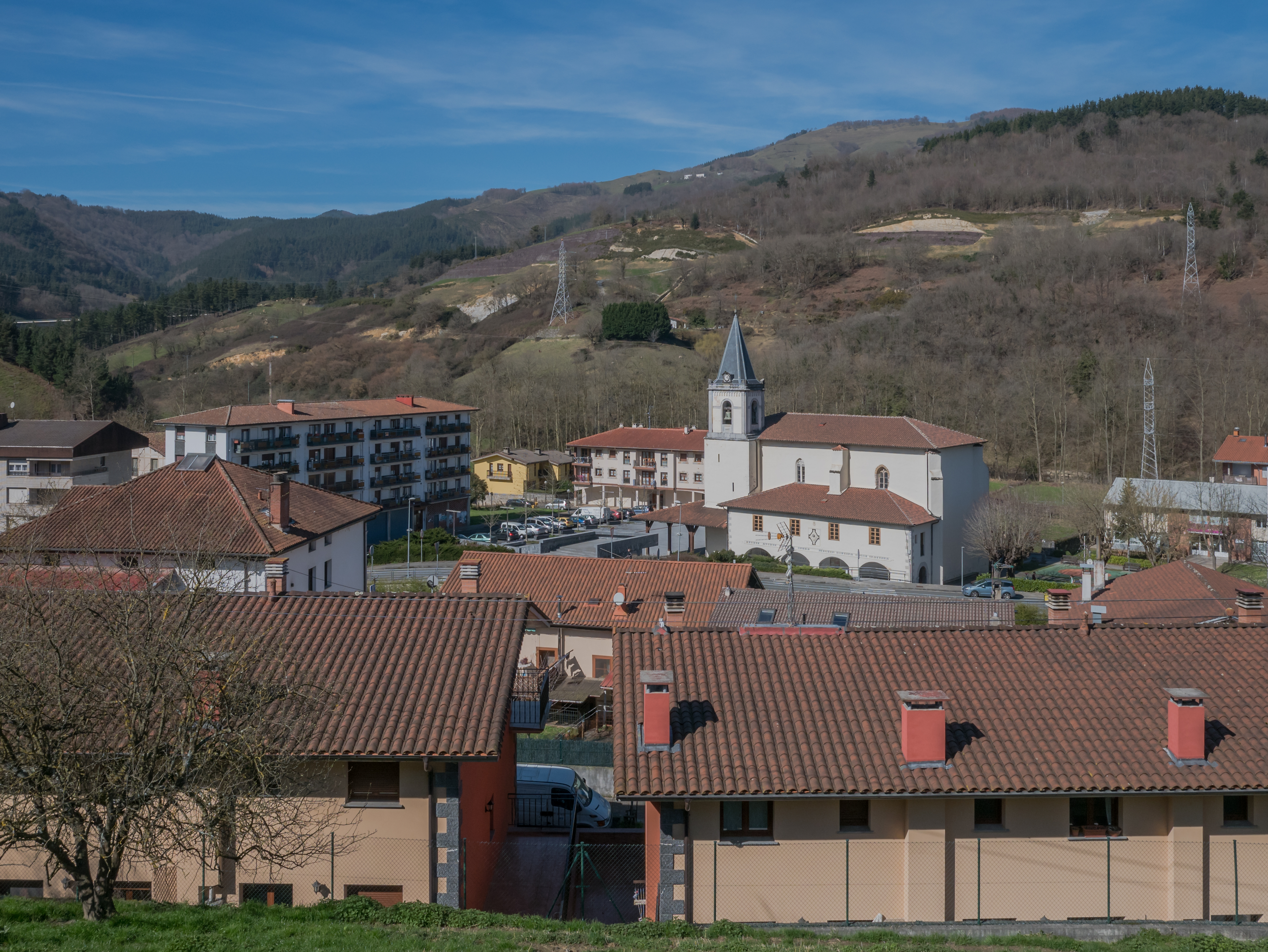 View of Ikaztegieta, Gipuzkoa, Basque Country, Spain